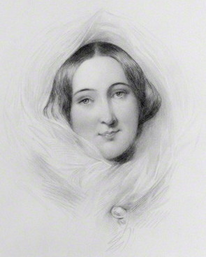 Rosina Anne Doyle Bulwer Lytton (née Wheeler), Lady Lytton by John Jewell Penstone, published by W. Swan Sonnenschien & Co, after Alfred Edward Chalon stipple engraving, (1852) 9 3/4 in. x 7 5/8 in. (247 mm x 193 mm) plate size; 11 1/4 in. x 8 7/8 in. (285 mm x 225 mm) paper size Bequeathed by (Frederick) Leverton Harris, 1927 NPG D14533